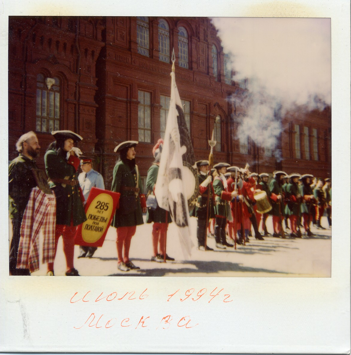 "285 years since victory under Poltava". See battle of Poltava Giving a salute from some antique short and wide-barreled handgun.